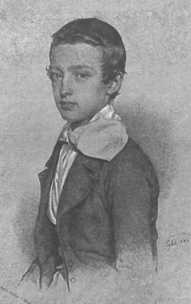 Archduke Joseph Karl Ludwig of Austria